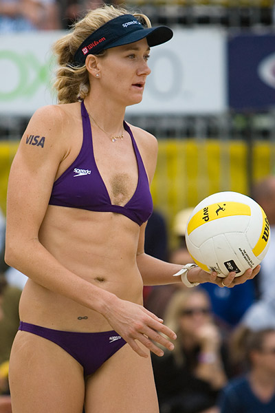 Kerri Walsh in 2007.